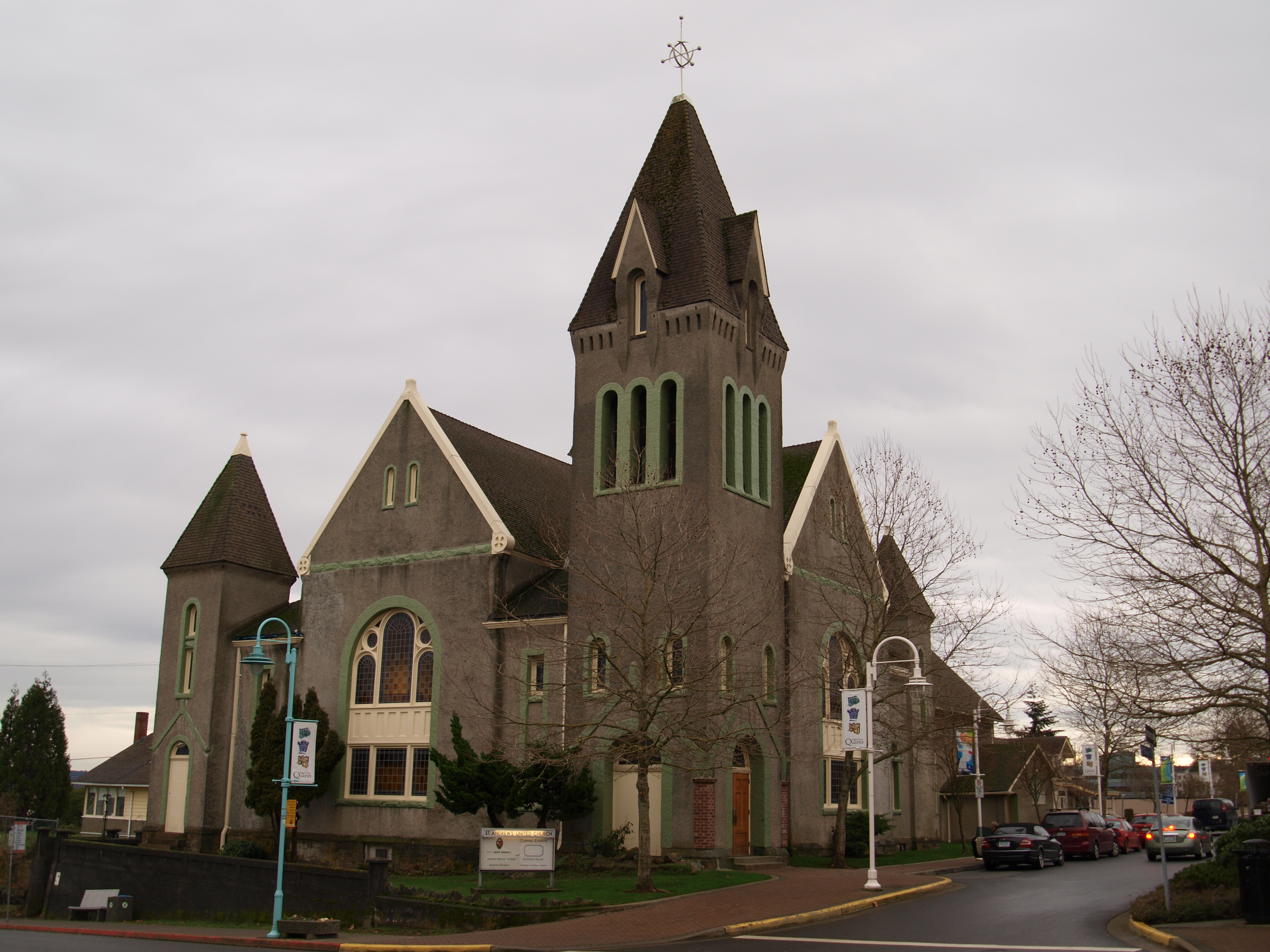 St. Andrew's United Church